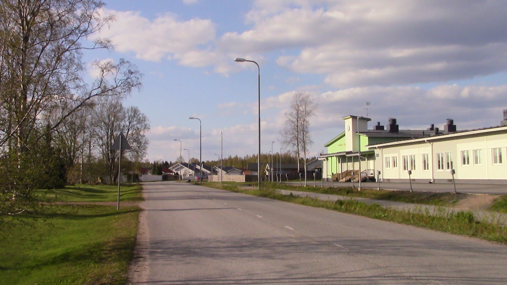 Koillistuulentie road at Tuulikylä suburb in Pori, Finland. The picture's taken near Meijumäki playschool.